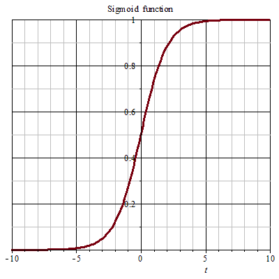 Sigmoid function 2D plot